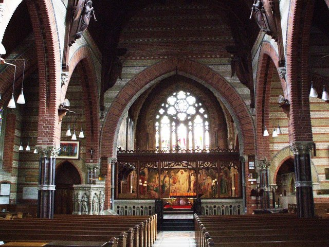 Interior of St Michael and All Angels Church, Lyndhurst. A church has stood on this site for 700 years.